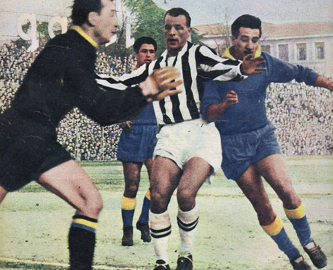 Verona (Italy), Marcantonio Bentegodi Stadium [1906–1963], January 26, 1958. A.C. Verona — Juventus F.C. 2-3, Matchday 18 of the Italian League 1957–58 Serie A. Juventus' striker John Charles (center) in action versus Verona's defence.